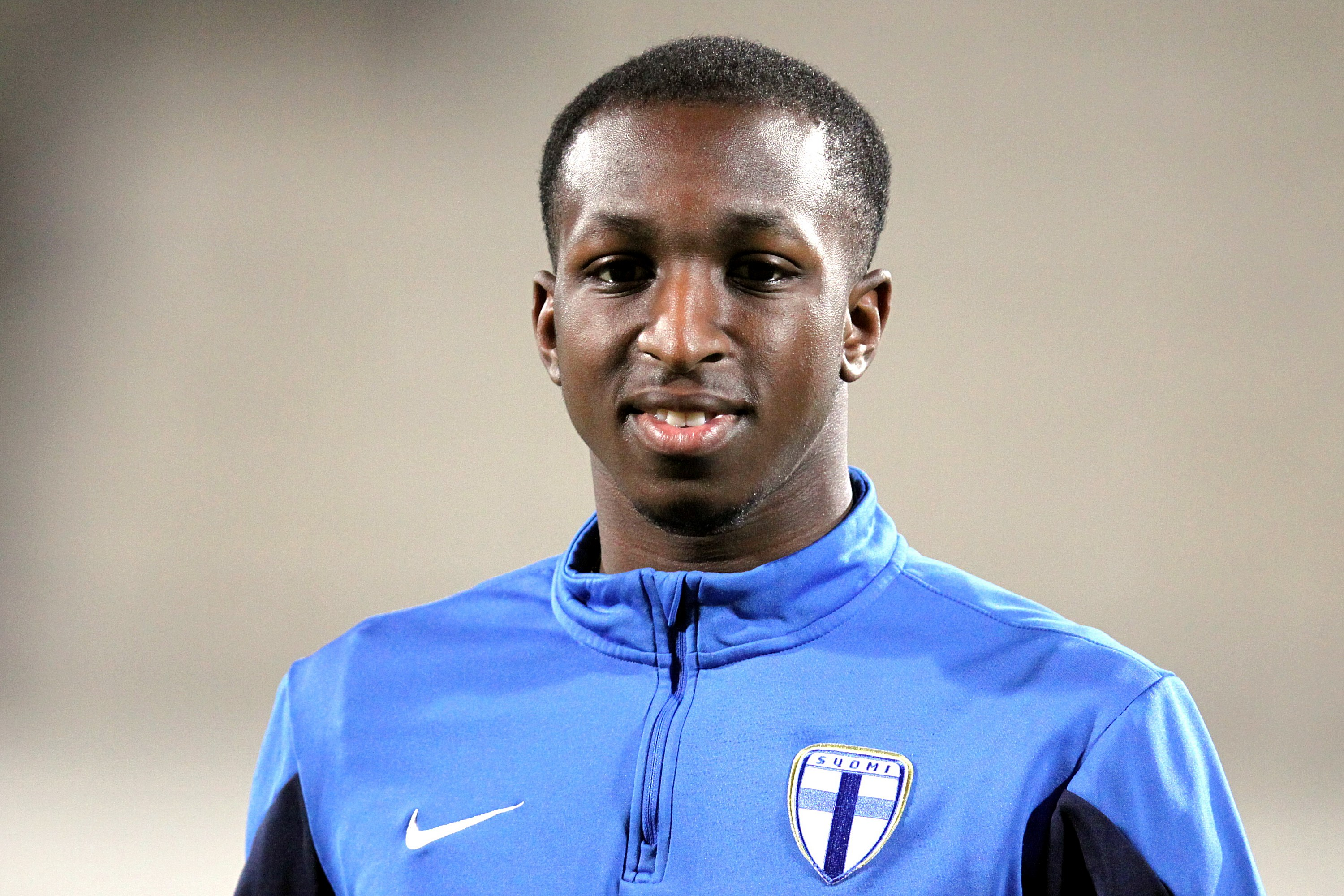 2017 UEFA European Under-21 Championship qualification – Austria U-21 (red shirts) vs. :en:Finland national under-21 football team |Finnland U-21 (blue shirts) 2-0 (0-0) – 2015-11-13 in Vienna, Austria Arena – The photo shows Glen Kamara.